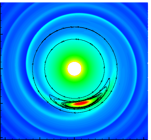 Figure depicting a computer simulation of a Rossby wave instability in a Keplerian disk.